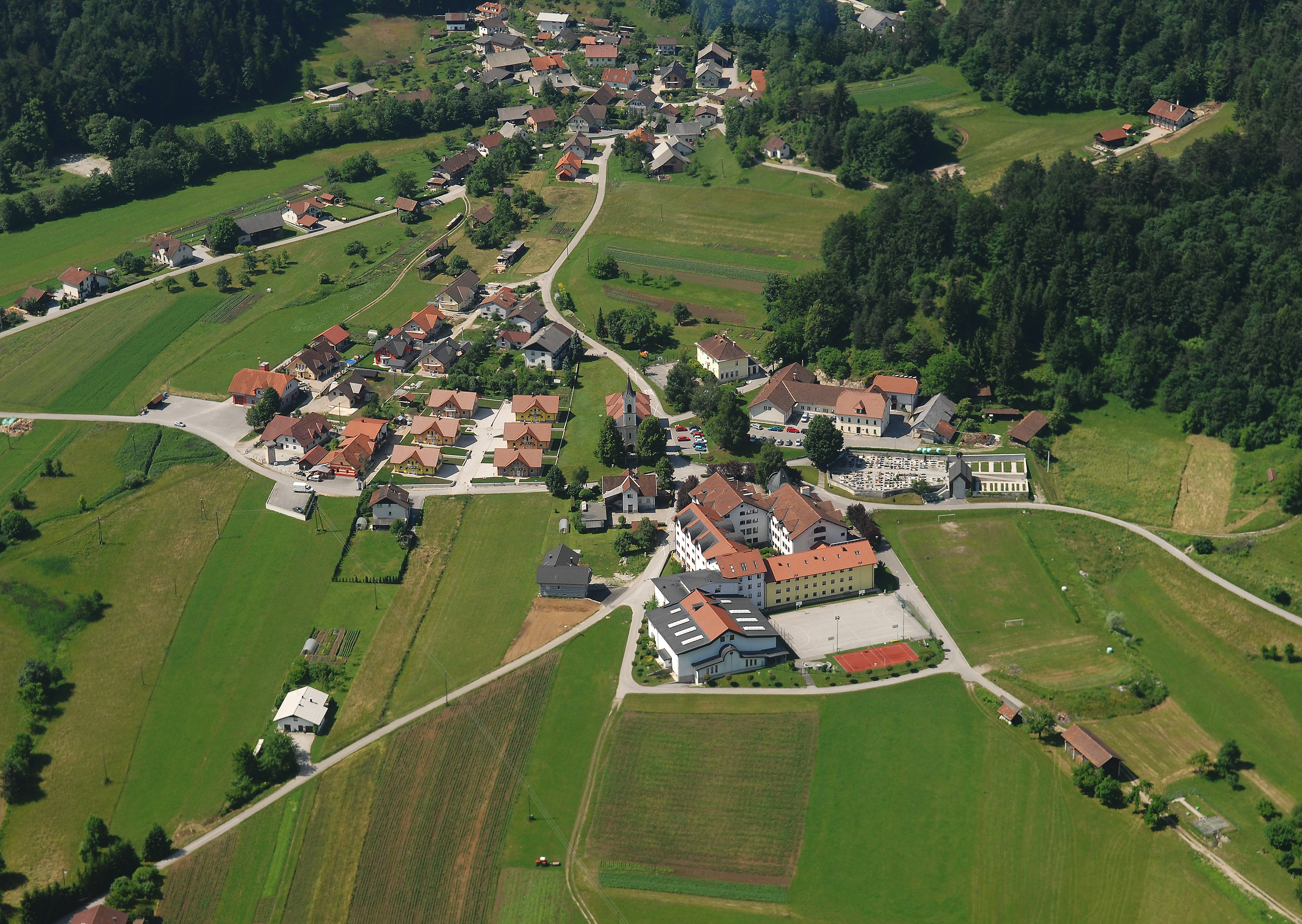 Gimnazija Zelimlje, Zavod sv. Franciska Saleskega, Zelimlje